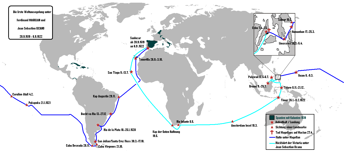 Ferdinand Magellan and Juan Sebastián Elcano's 1519-1522 expedition was the first documented world circumnavigation